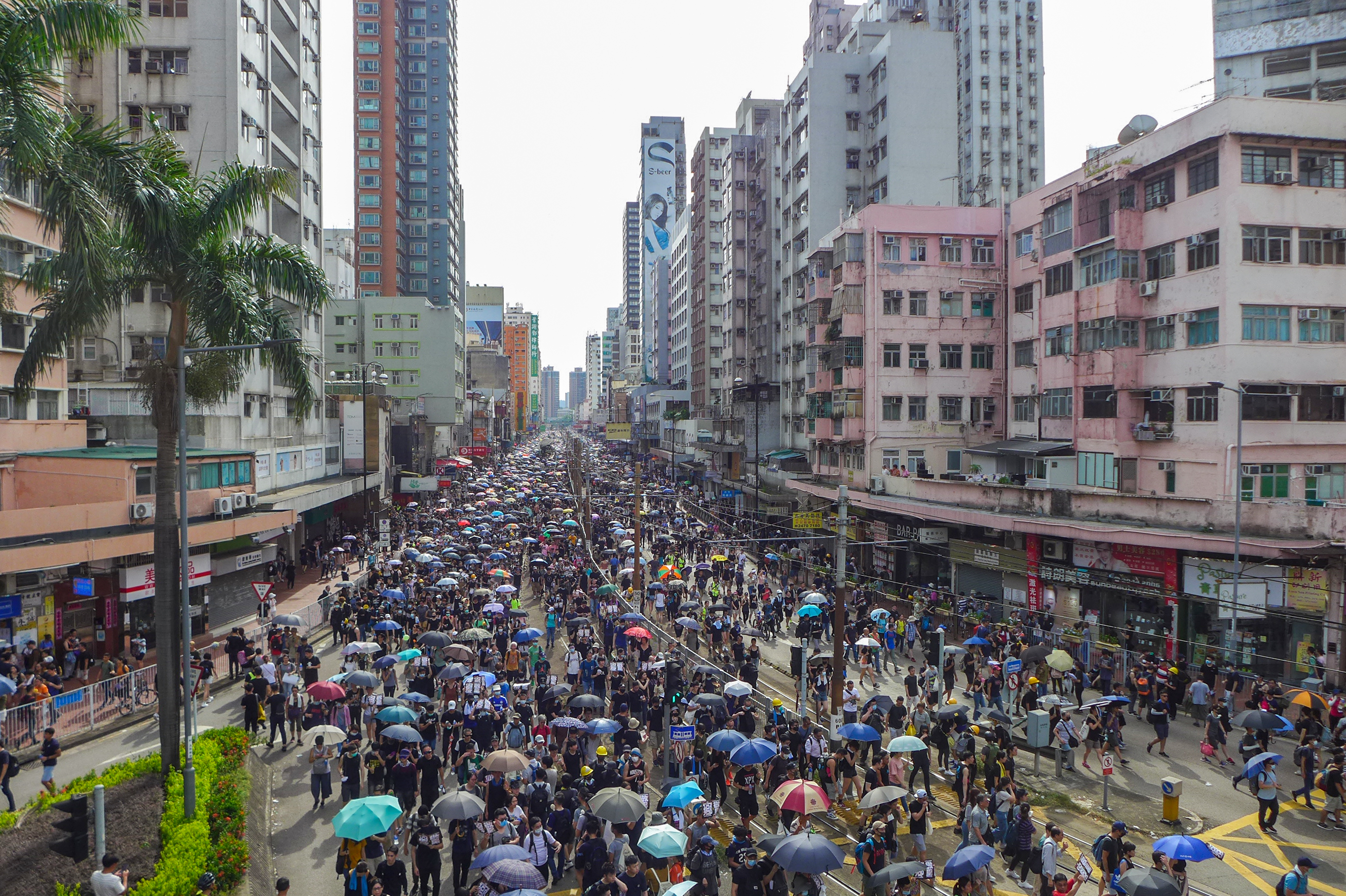 People protest in Castle Peak Road Yuen Long Section